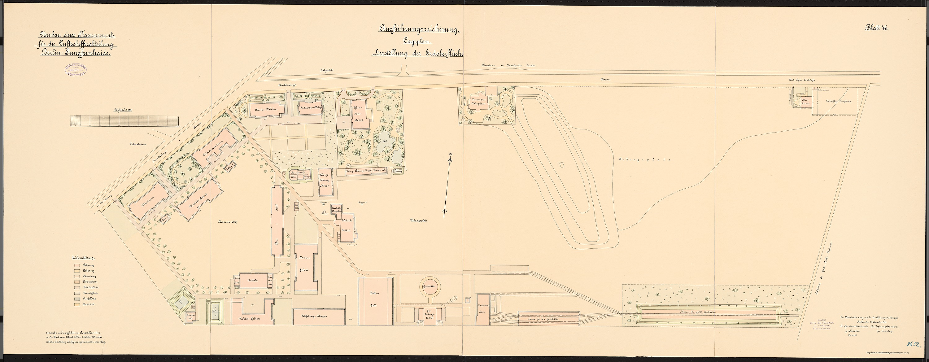 Feuerstein , Kaserne für das Luftschiffer-Bataillon, Berlin-Jungfernheide: Lageplan 1:500. Lithographie farbig auf Karton, 74,6 x 191,5 cm (inkl. Scanrand). Architekturmuseum der Technischen Universität Berlin Inv. Nr. 30000.